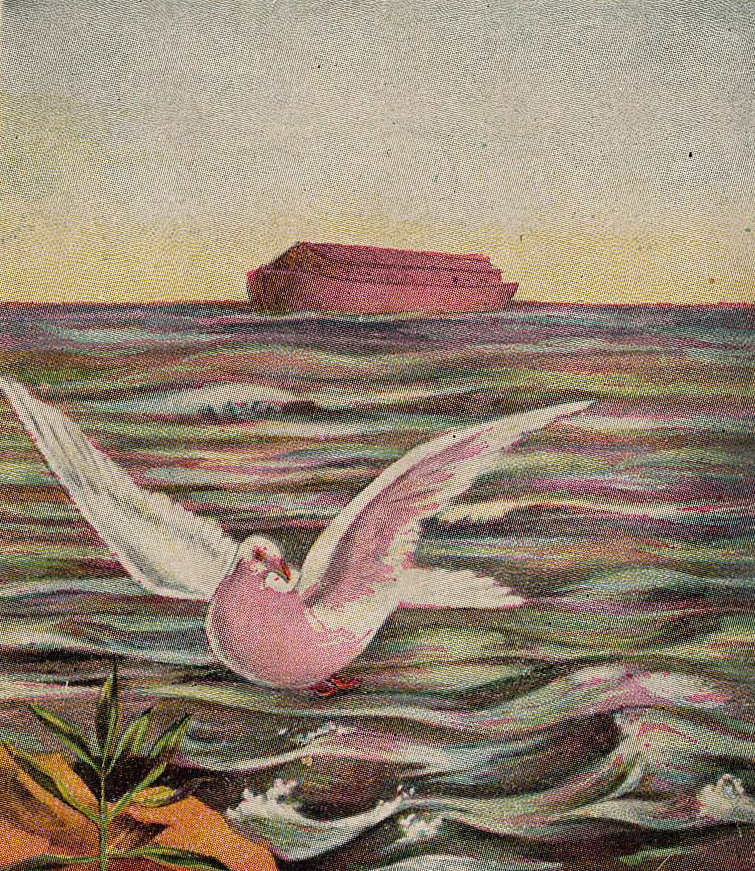 Noah Found Grace in the Eyes of the Lord; as in Genesis 6:8; illustration from Sunrays Quarterly